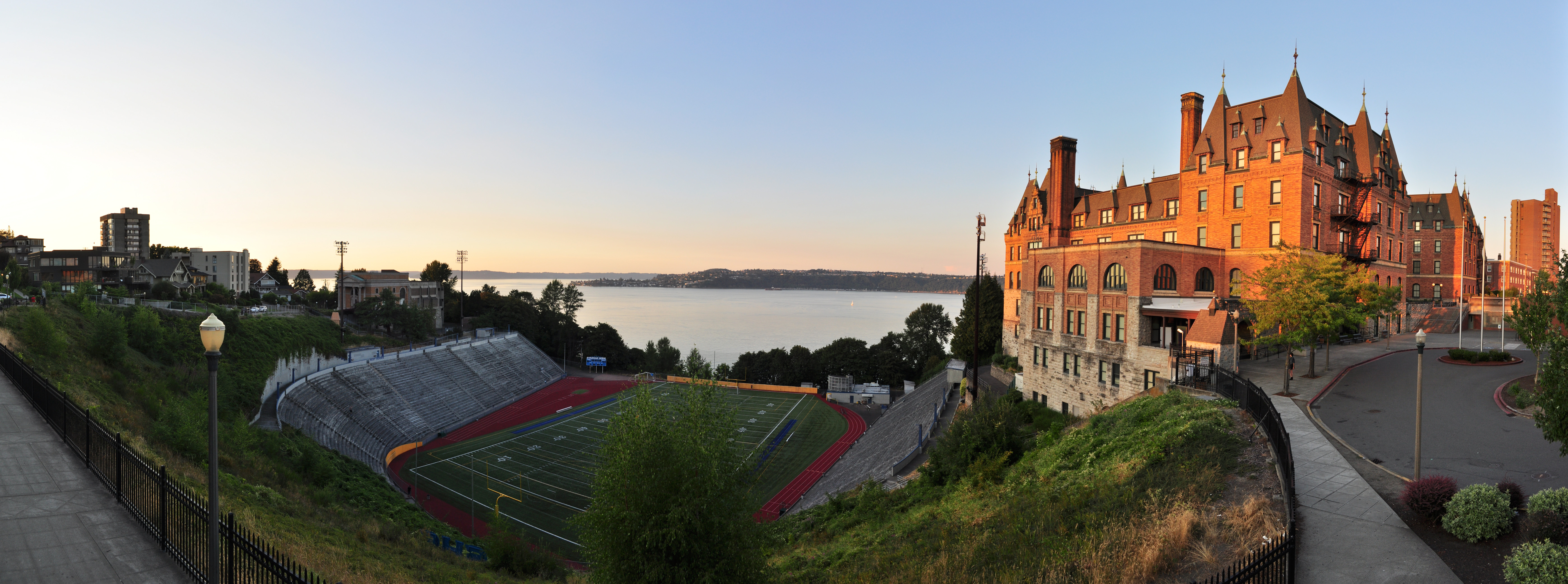 Stadium High School, Tacoma, Washington, U.S. This image was created with Hugin.